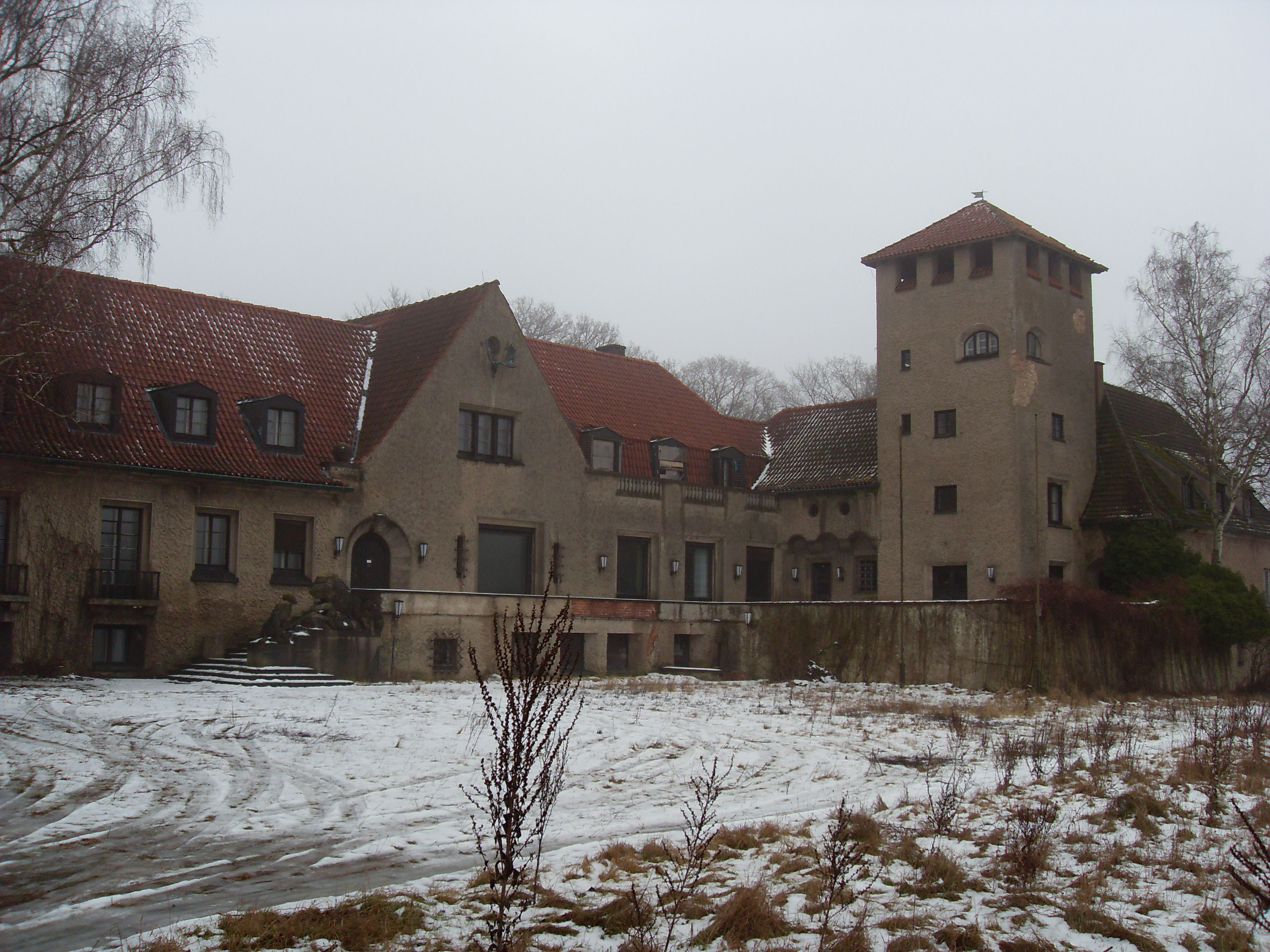 Jagdschloss Speck in Kargow, near Waren/Müritz